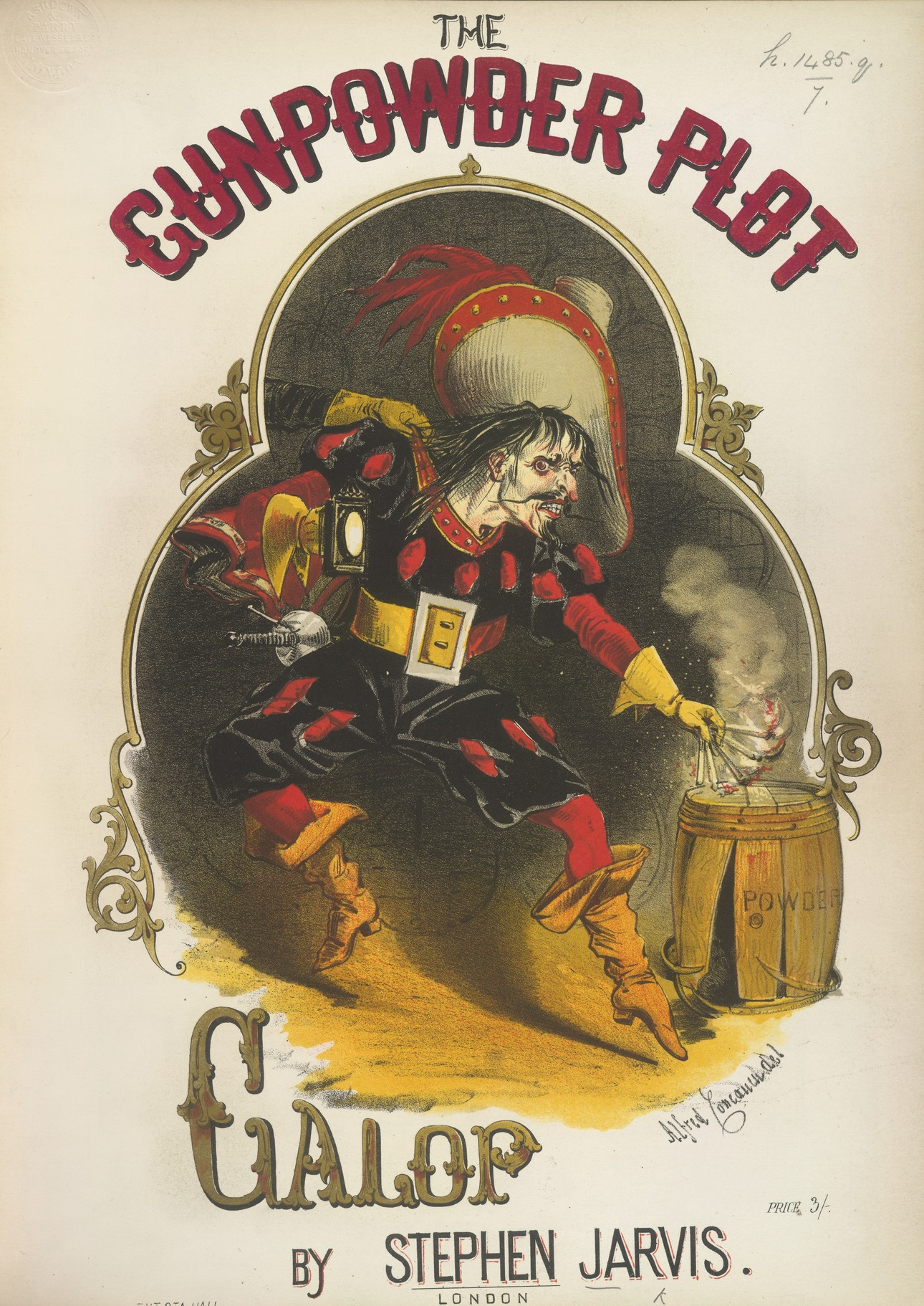 The Gunpowder Plot Galop A music cover illustration depicting Guy Fawkes, the conspirator, lighting matches over a barrel of gunpowder.